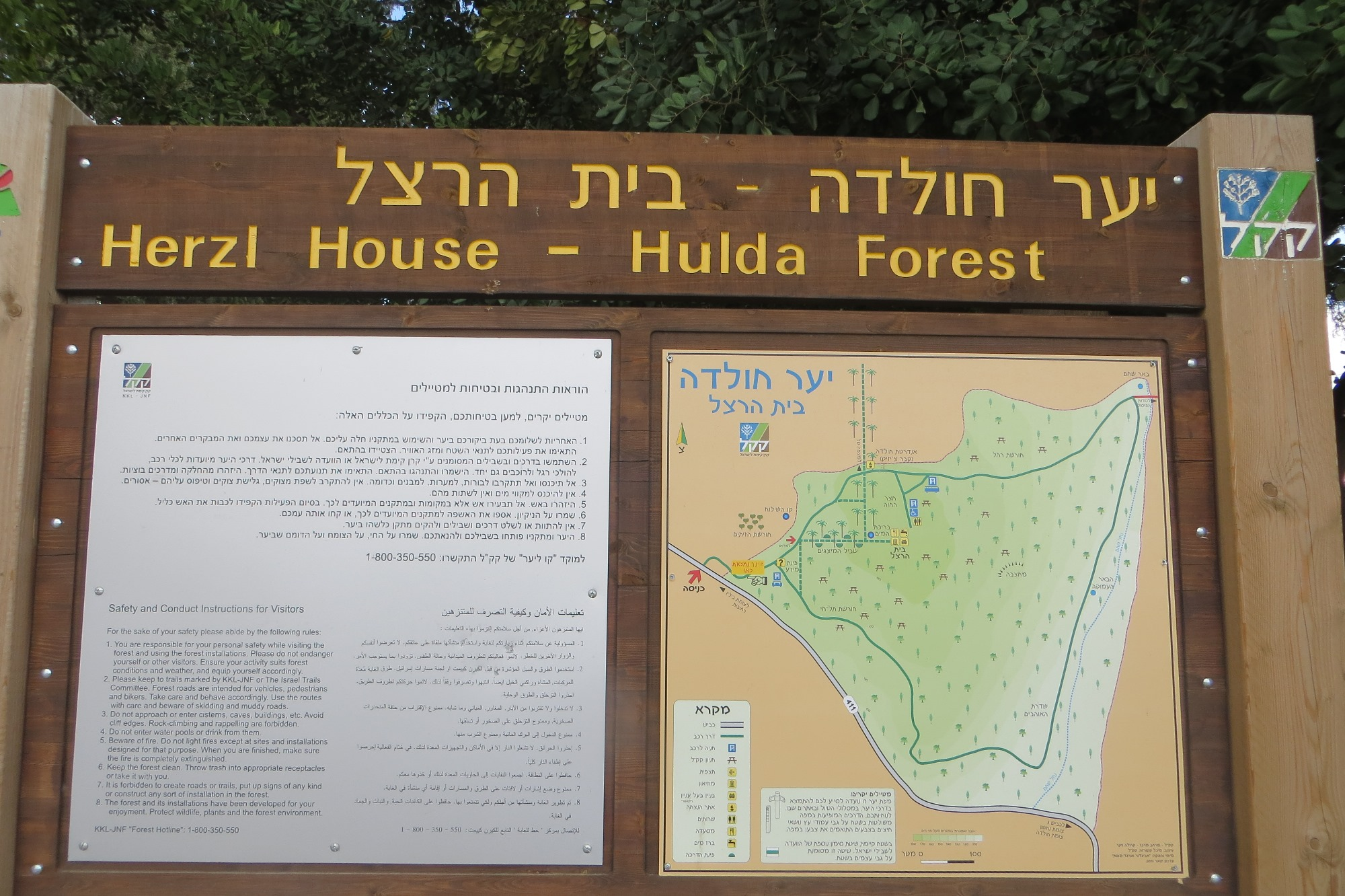 Settlements in Israel